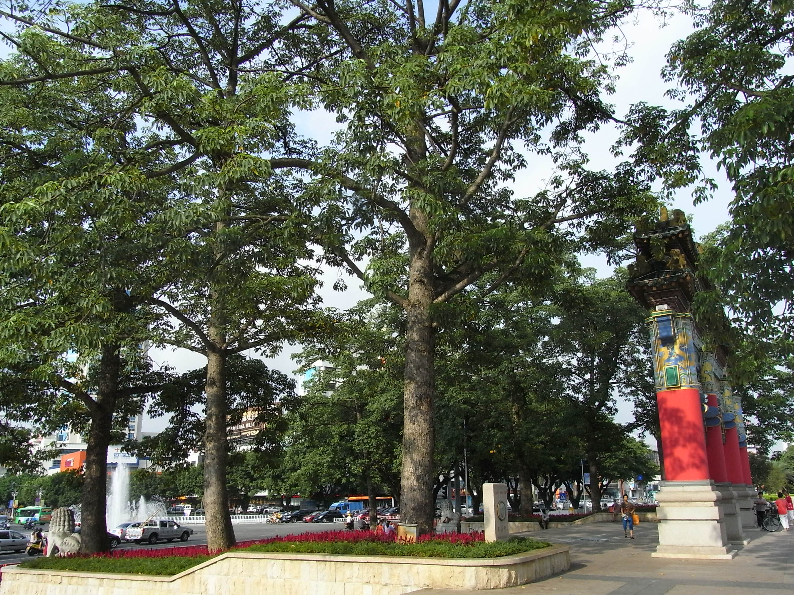 Seven Star Crags Park, 肇慶市 七星岩公園廣場, Zhaoqing City, Guangdong